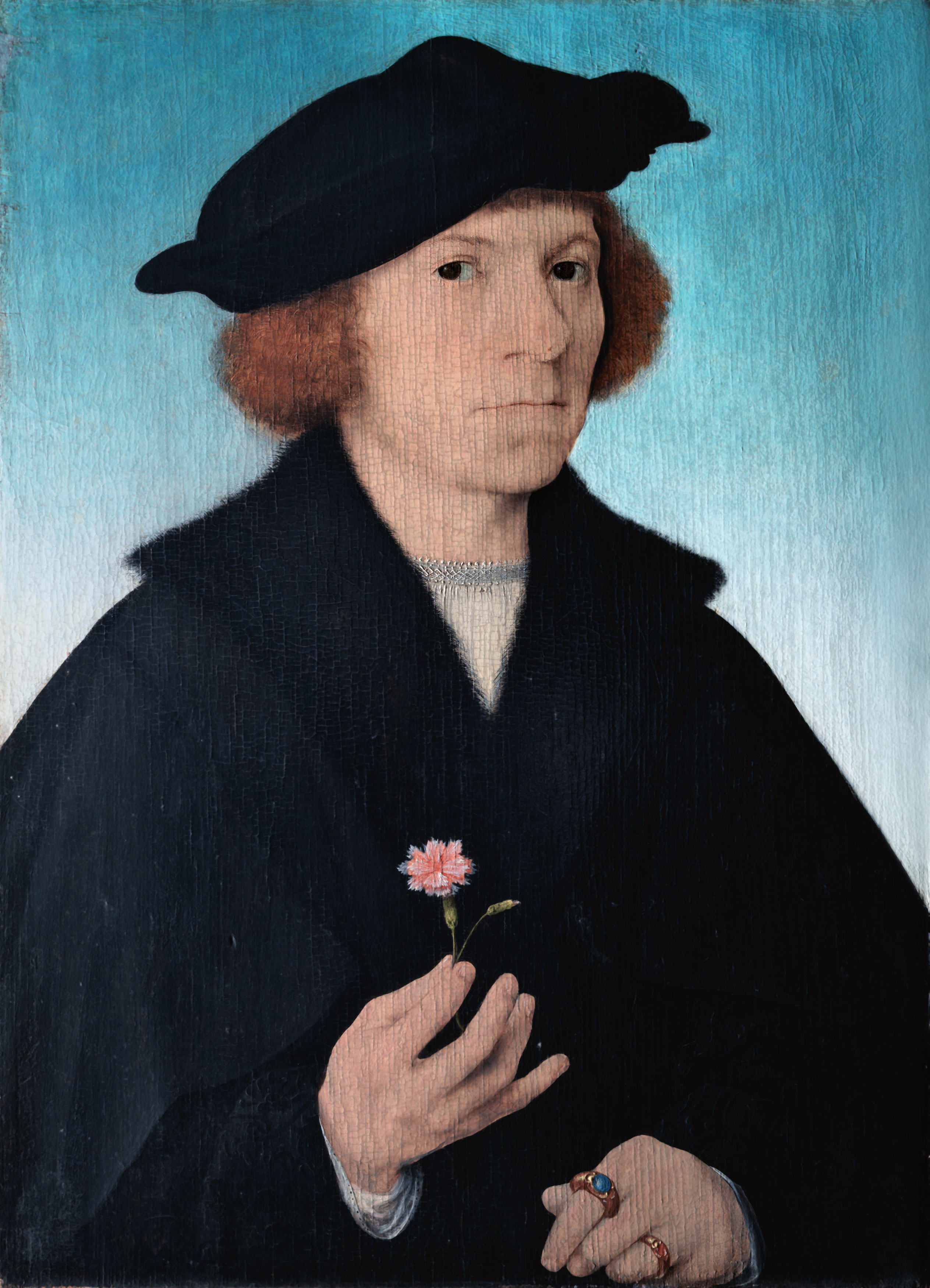 Self-portrait by the painter Joos van Cleve